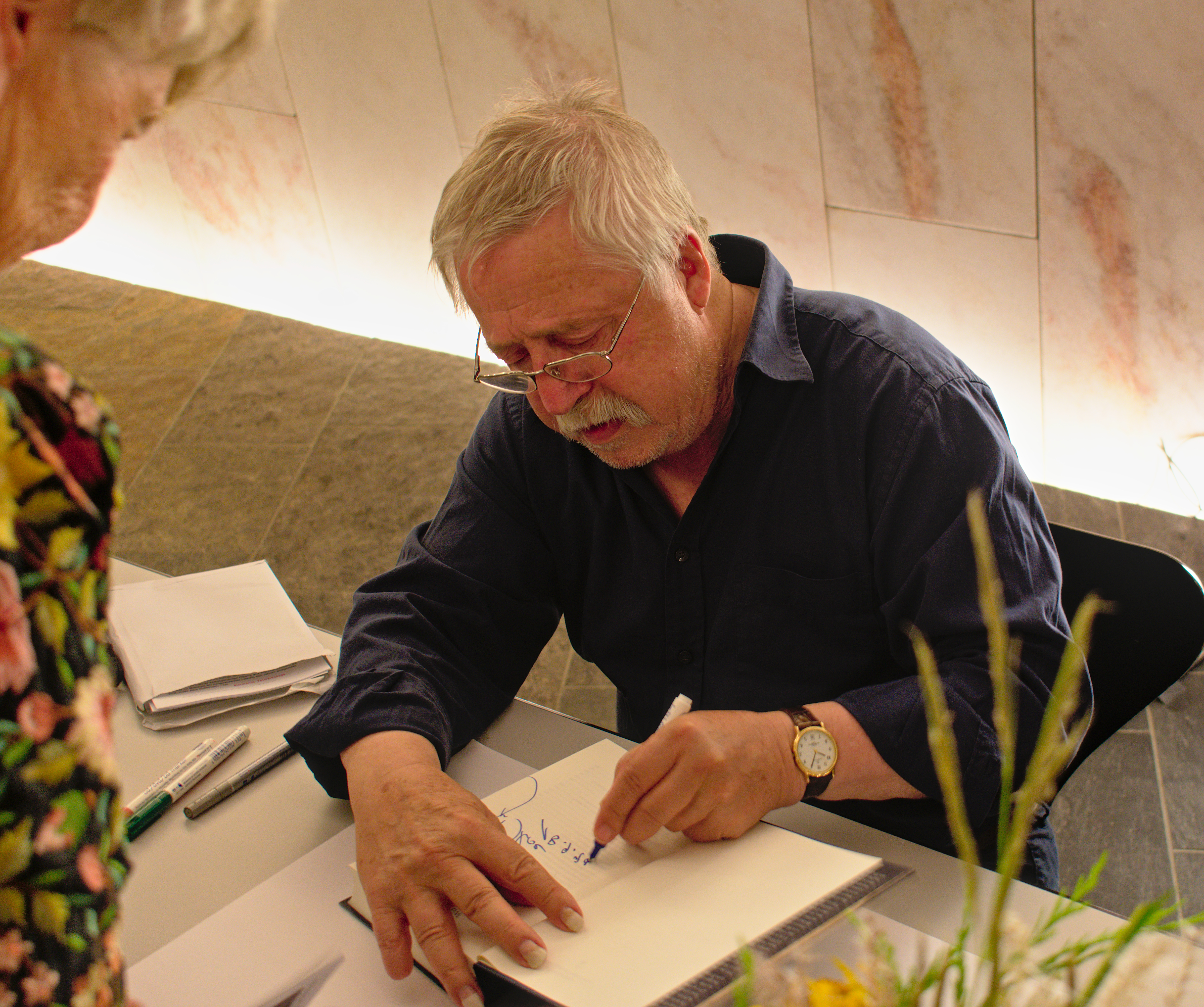 Wolf Biermann signing autographs